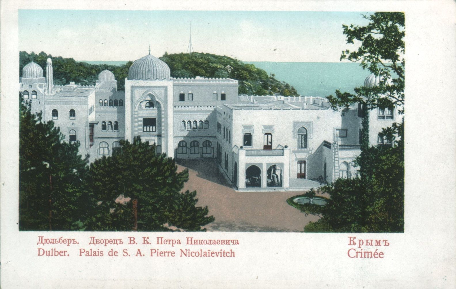 Open Letter (Carte Postale) with view of Dulber Palace of Grand Duke Petr Nikolaevich Romanov. Early XX century.